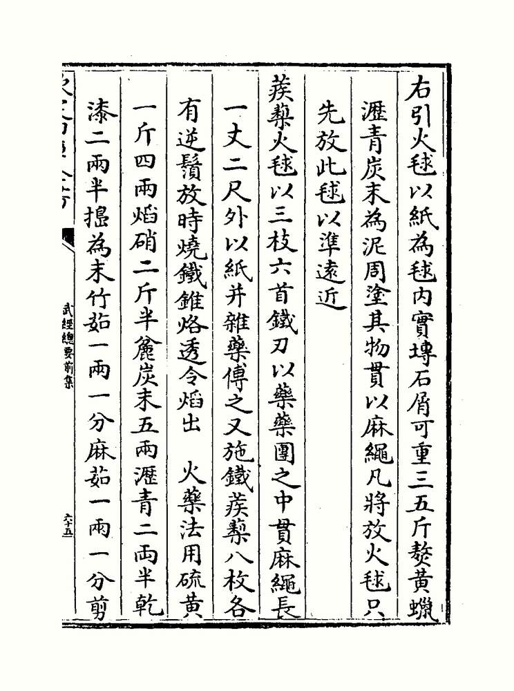 Gunpowder formula in Wujing zongyao part I, vol 12